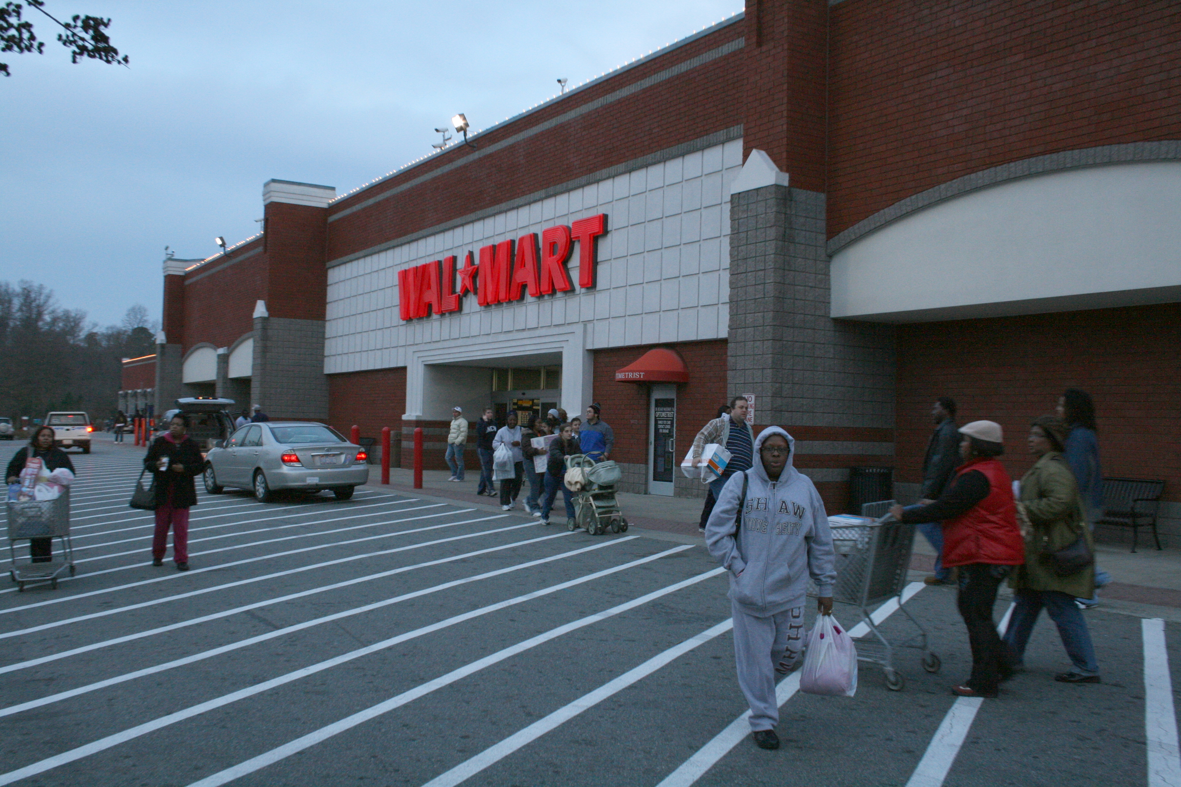 Black Friday shoppers in the morning at Wal-Mart store #2137 at New Hope Commons in Durham, North Carolina.